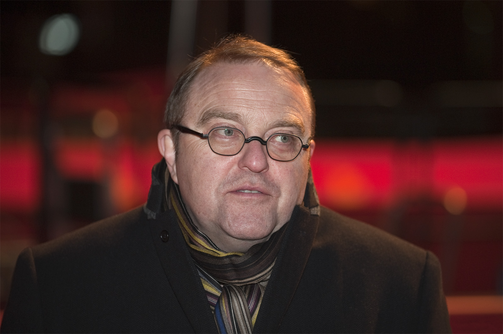 Gustav Peter Wöhler; German actor and musician; Opening of the 59th Berlin International Film Festival